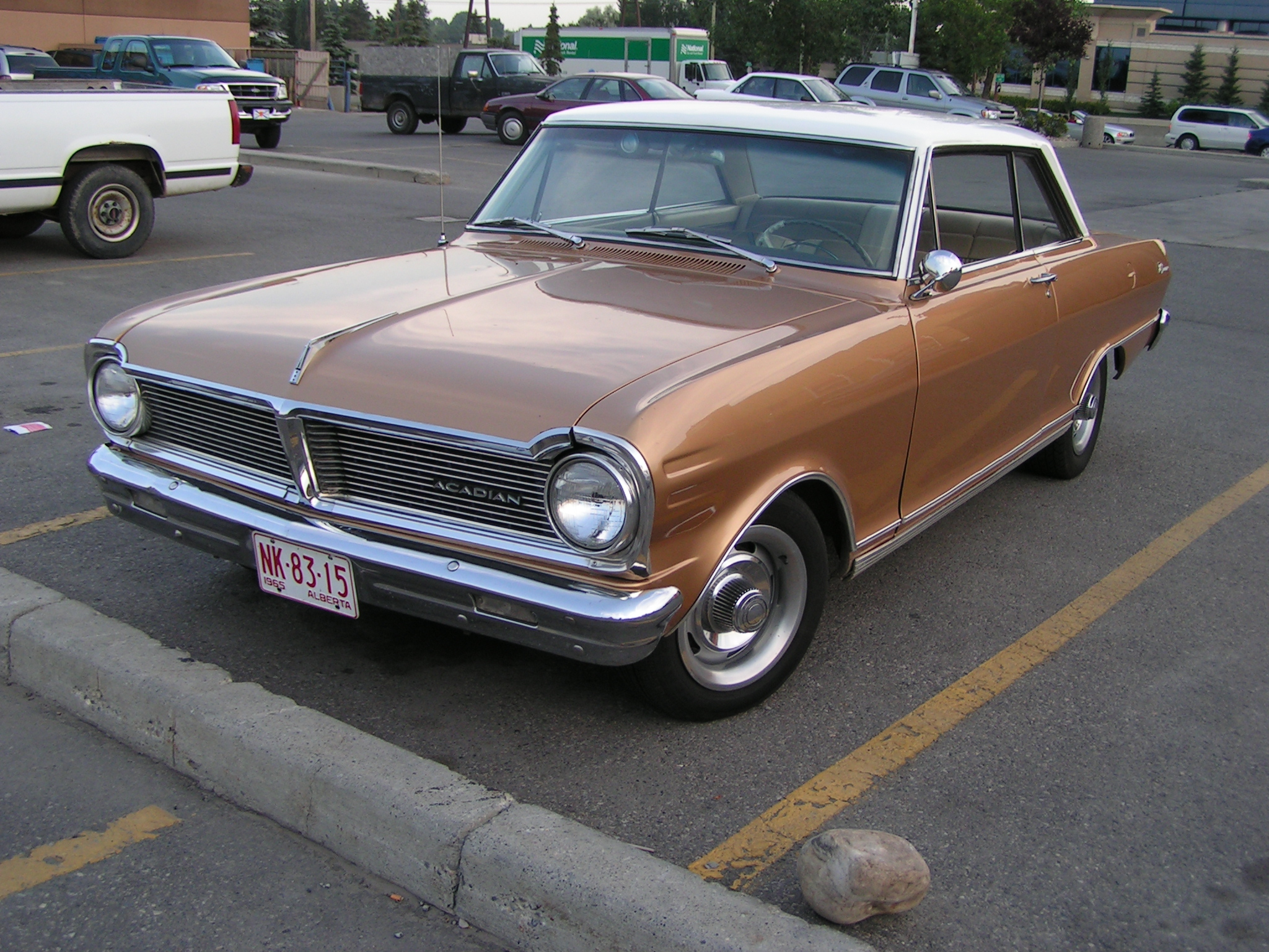 A Canadian market Acadian Canso which is a version of the Chevrolet Nova.